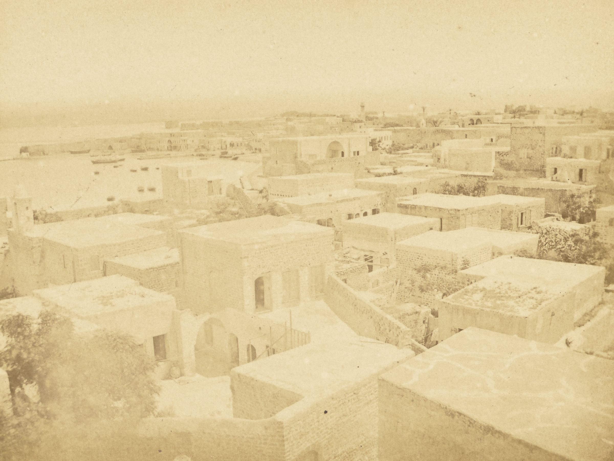 Tyr.; Félix Bonfils (French, 1831 - 1885); Alais, France; about 1878; Albumen silver print; 7.5 × 9.6 cm (2 15/16 × 3 3/4 in.); 84.XO.1175.72 "View of the City of Tyre. Stone buildings spread across the city to the harbor, which is visible in the distance behind them."